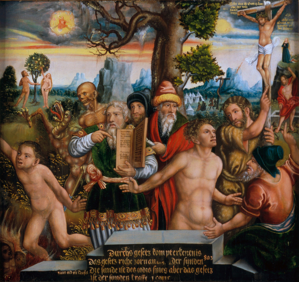 Law and Grace